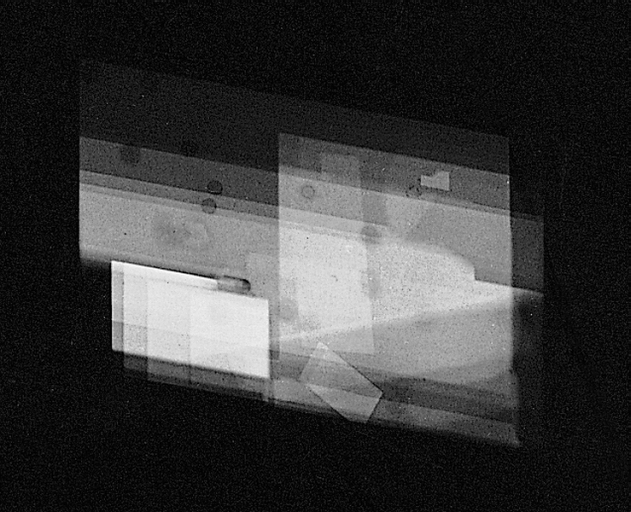 CNS: ADAMANTINOMATOUS CRANIOPHARYNGIOMA Cholesterol crystals, a typical finding in the cyst fluid, are readily identified by examination under polarized light.